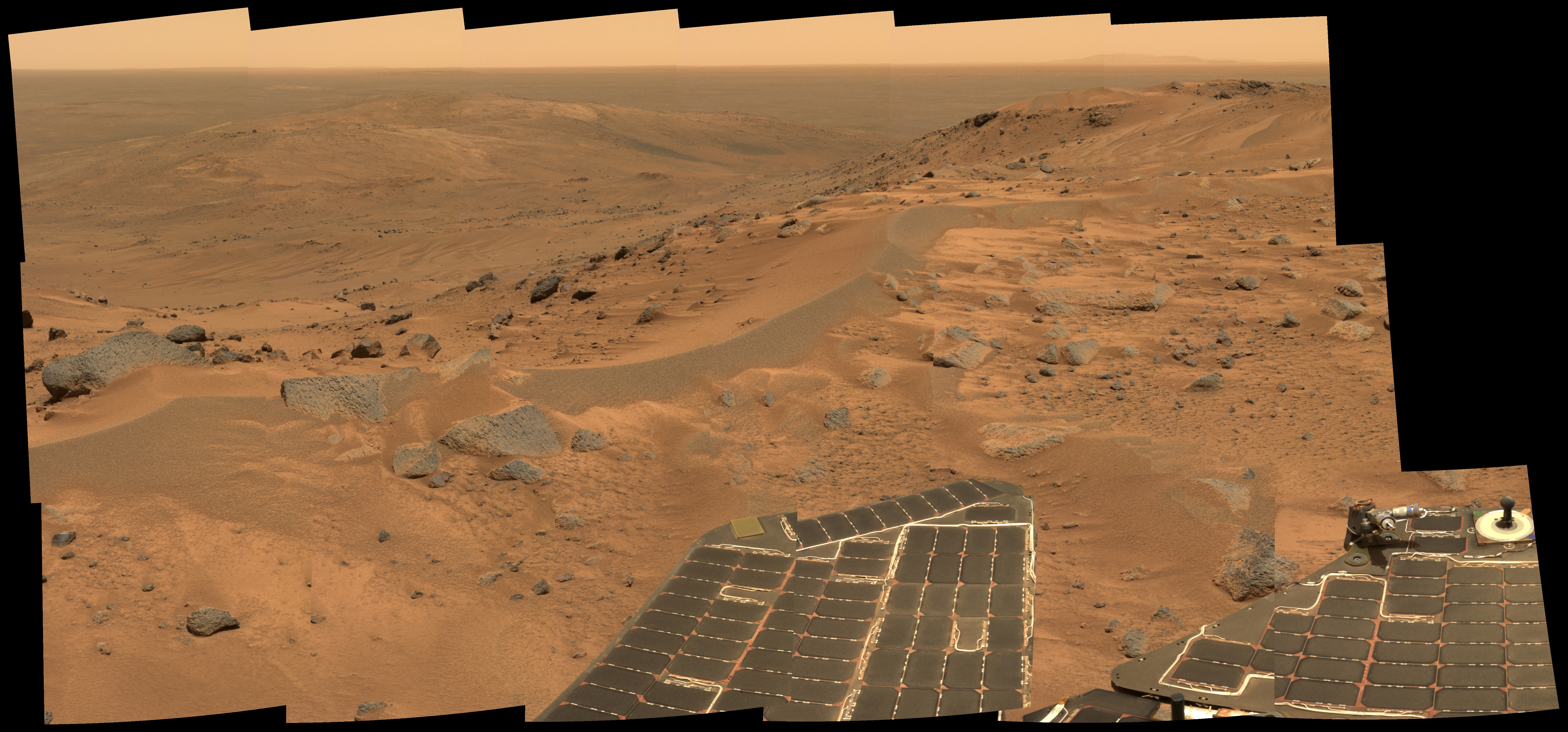 Jet Propulsion Laboratory: "This "postcard" or mini-panorama was taken by NASA's Spirit rover on martian day, or sol, 582 (August 23, 2005), just as the rover finally completed its intrepid climb up Husband Hill. The summit appears to be a windswept plateau of scattered rocks, little sand dunes and small exposures of outcrop. The breathtaking view here is toward the north, looking down into the drifts and outcrops of the "Tennessee Valley," a region that Spirit was not able to visit during its climb to the top of the hill. The approximate true-color postcard spans about 90 degrees and consists of images obtained by the rover's panoramic camera during 18 individual pointings. At each pointing, the rover used three of its panoramic filters (600, 530 and 480 nanometers)." Target Name: Mars Is a satellite of: Sol (our sun) Mission: Mars Exploration Rover (MER) Spacecraft: Spirit Instrument: Panoramic Camera Product Size: 6592 samples x 3077 lines Produced By: Cornell University